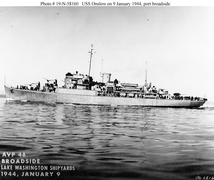 United States Navy seaplane tender USS Onslow (AVP-48) off Houghton, Washington